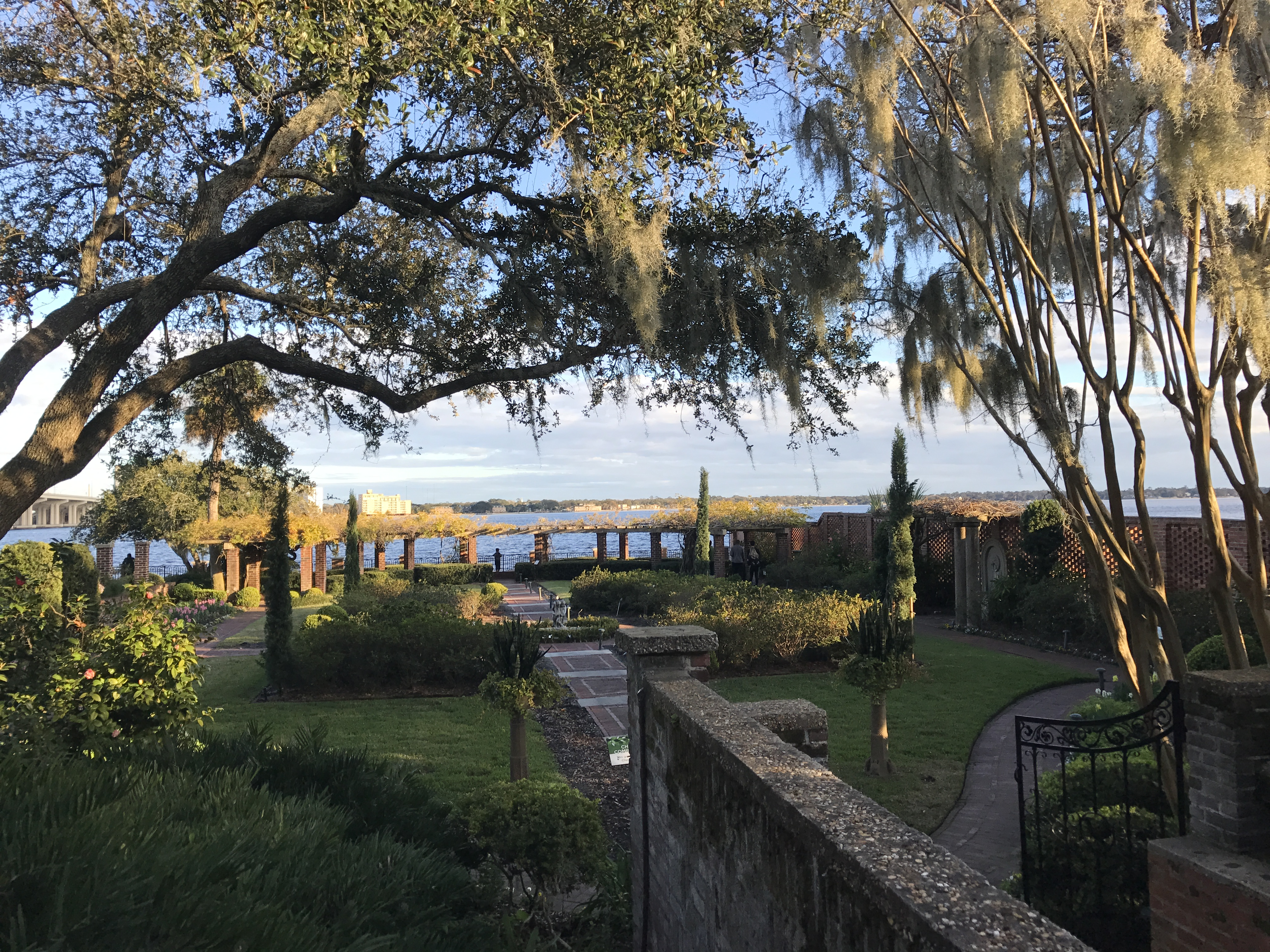 The English Garden located at the Cummer Museum, designed by Thomas Meehan & Sons of Philidelphia.